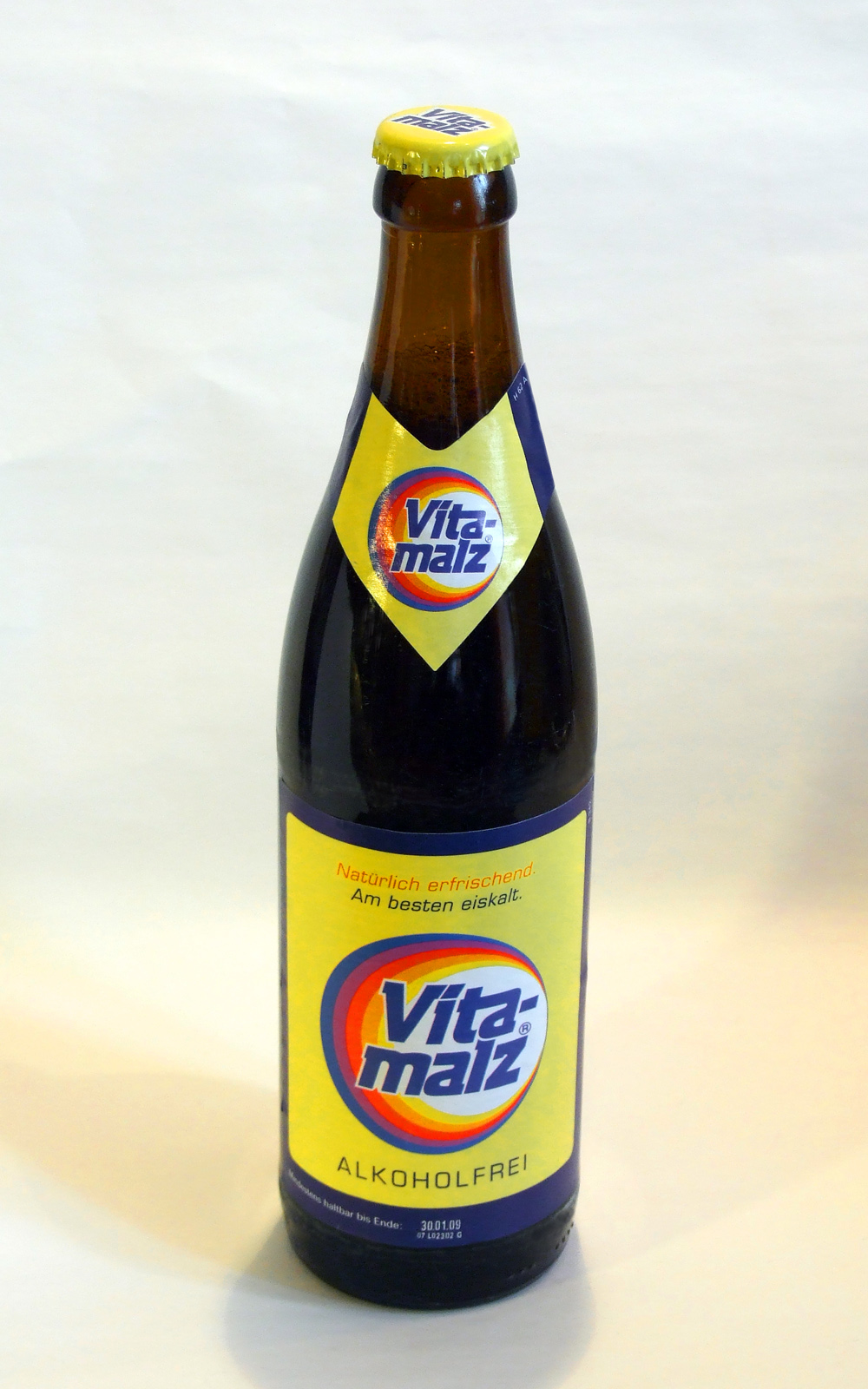 Bottle of Vitamalz